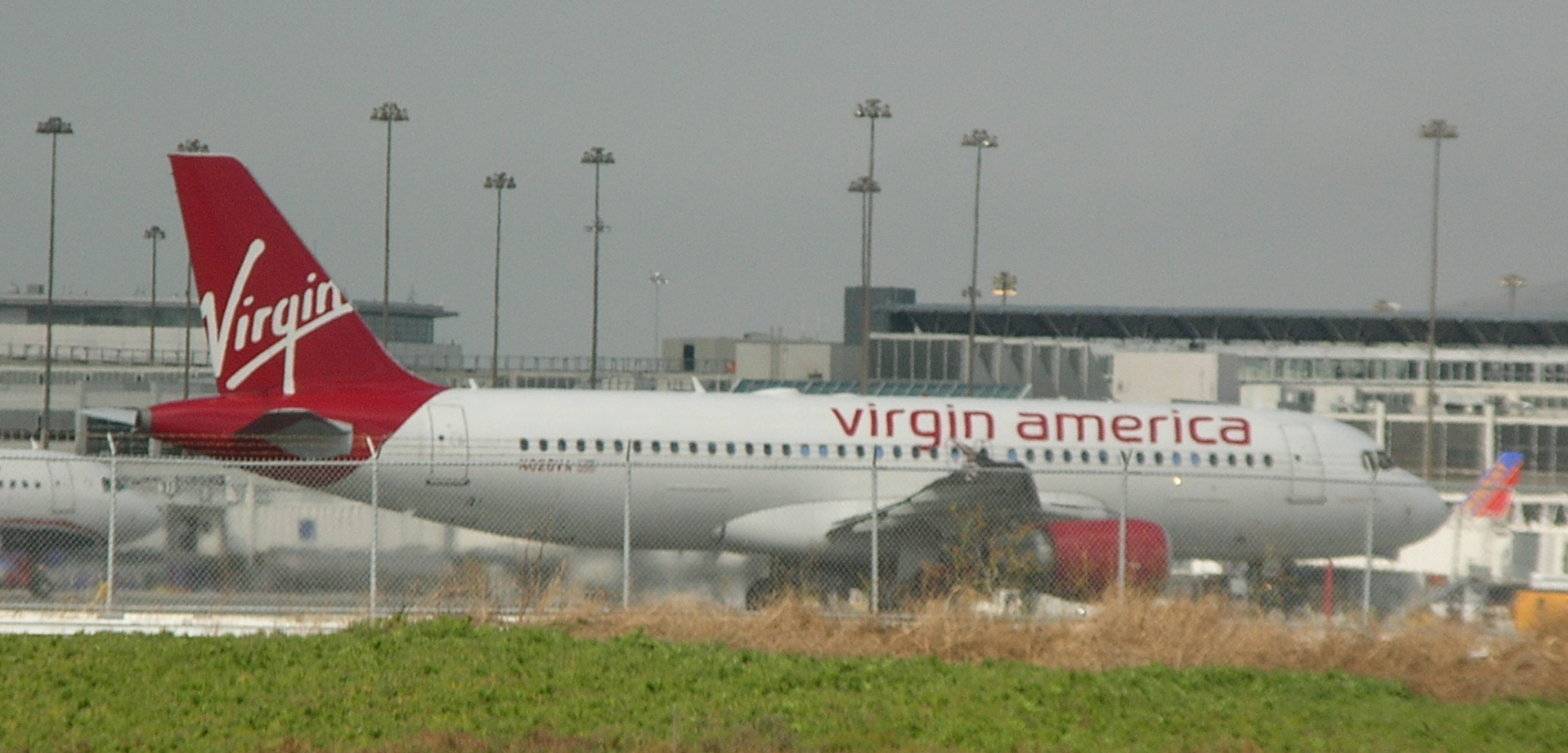 A Virgin America Airbus A320-214, tail number N626VA, departing San Francisco International Airport (SFO).